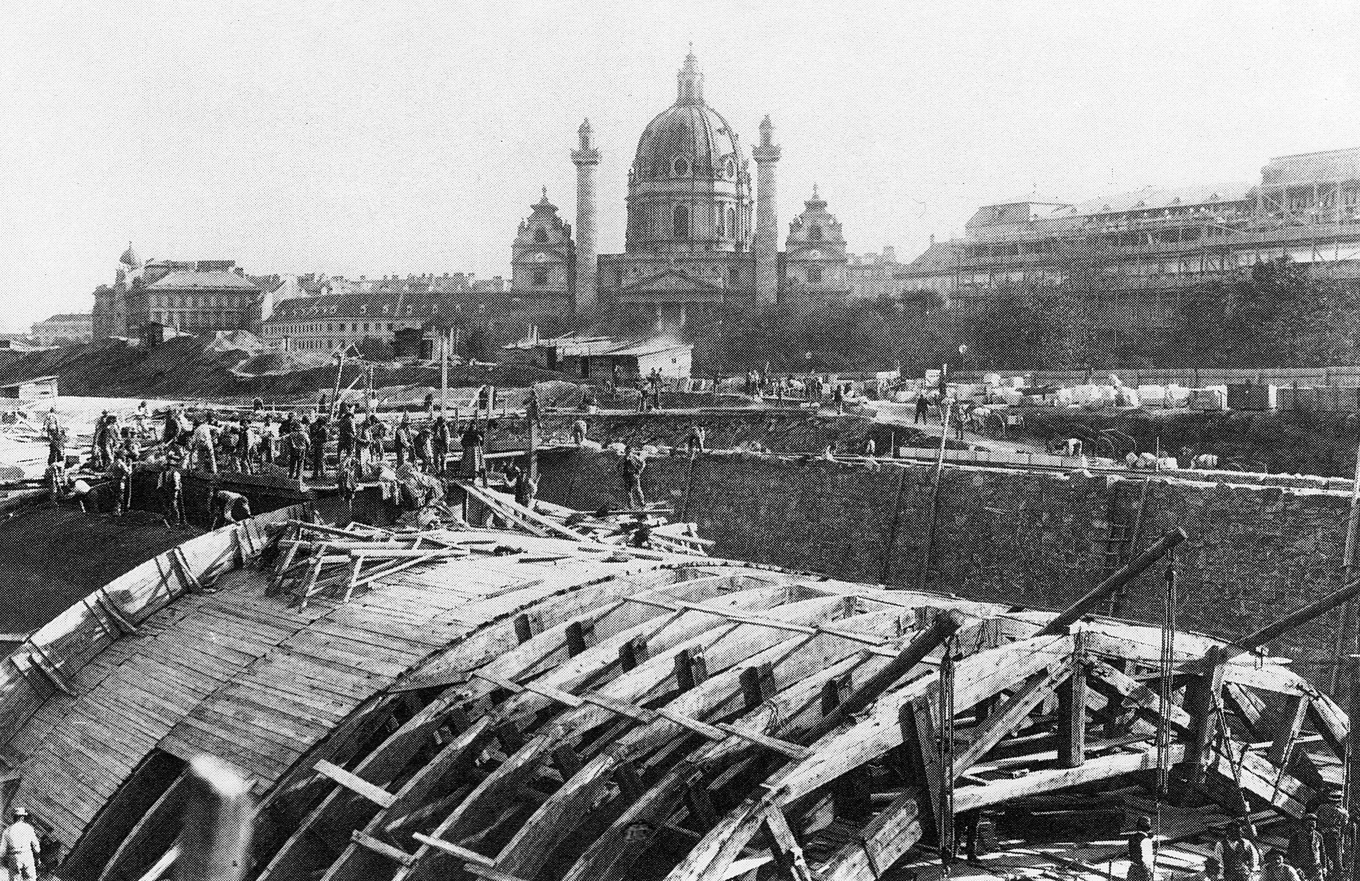 The river Wien at Karlsplatz is put underground (1894-1900)